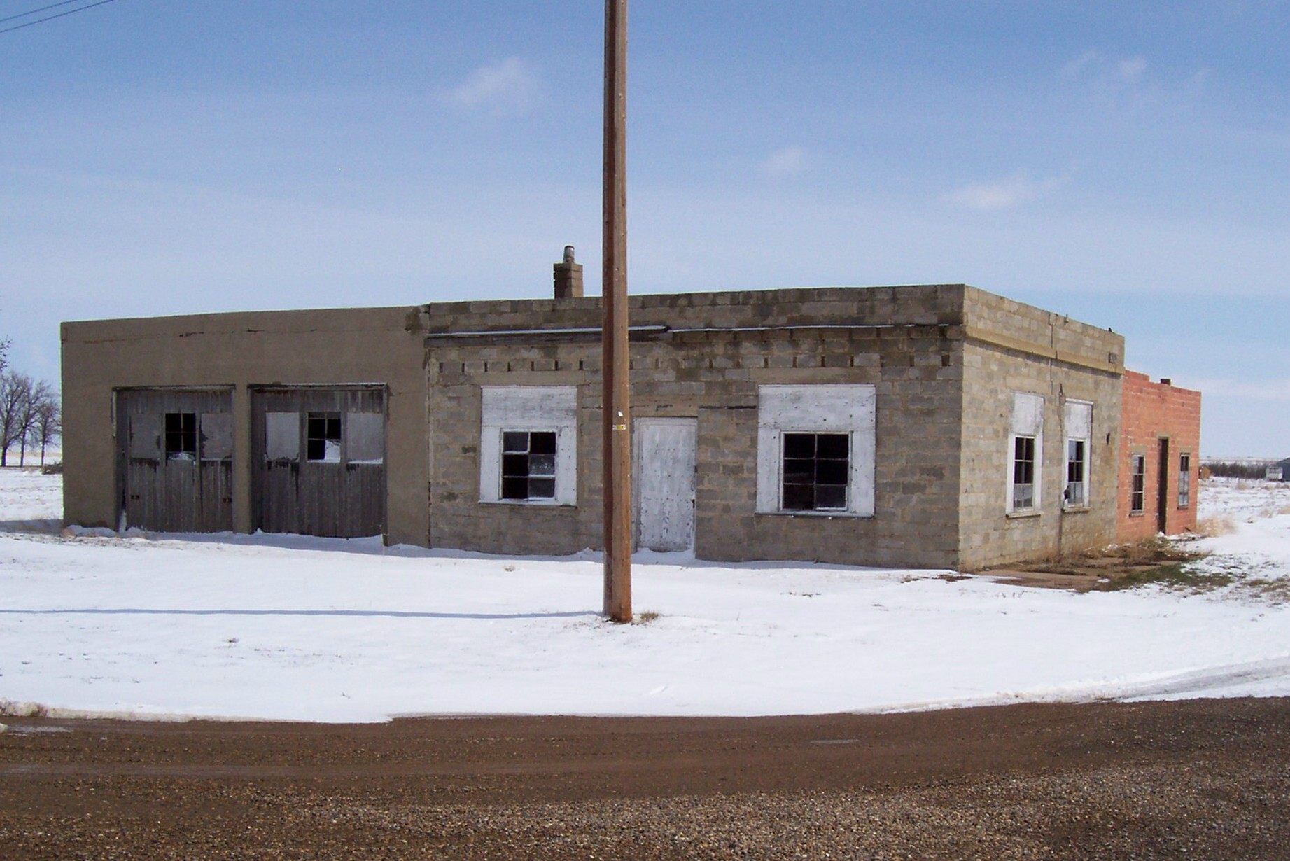 Empty store in Nemiscam, Alberta